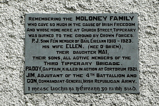 Remembering the Moloney family. This plaque is on the wall just to the left of the Maid of Erin statue, which can be seen here 1296107 and here 1296104. It is not linked to the statue other than common commitment to the Irish Republican cause. The land for the statue was given by a member of the Moloney family, which is probably why the two are next to each other.